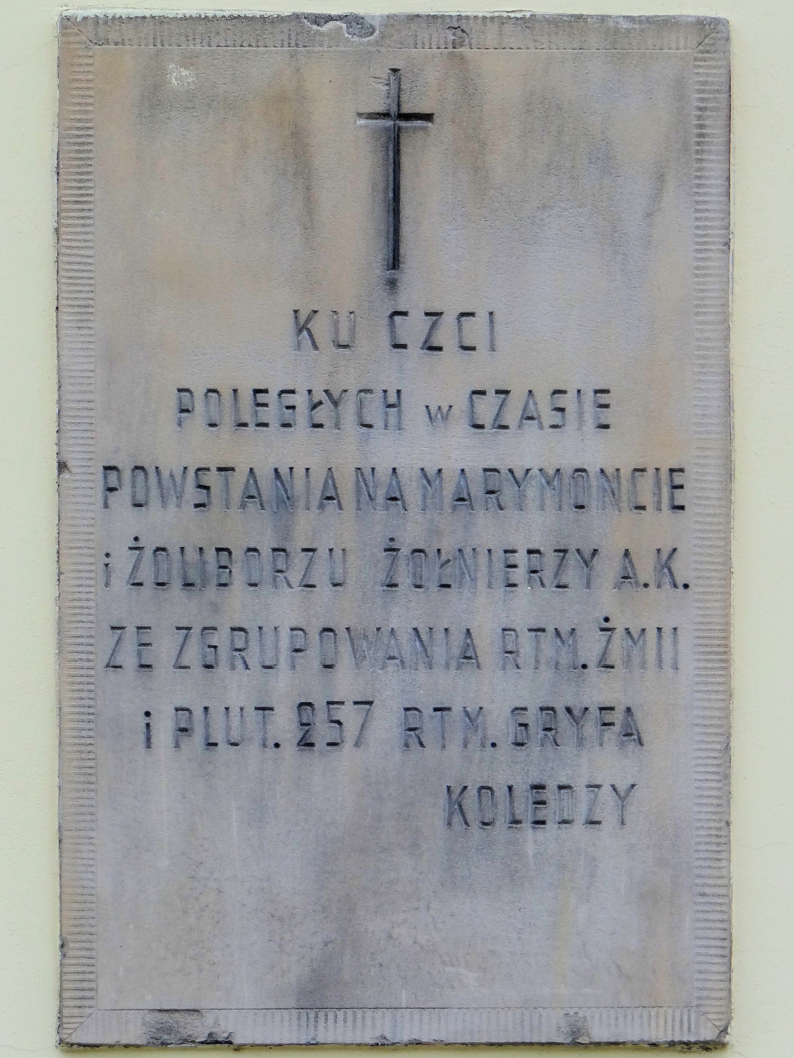 Plaque on the wall of church of Our Lady Queen of Poland in Warsaw